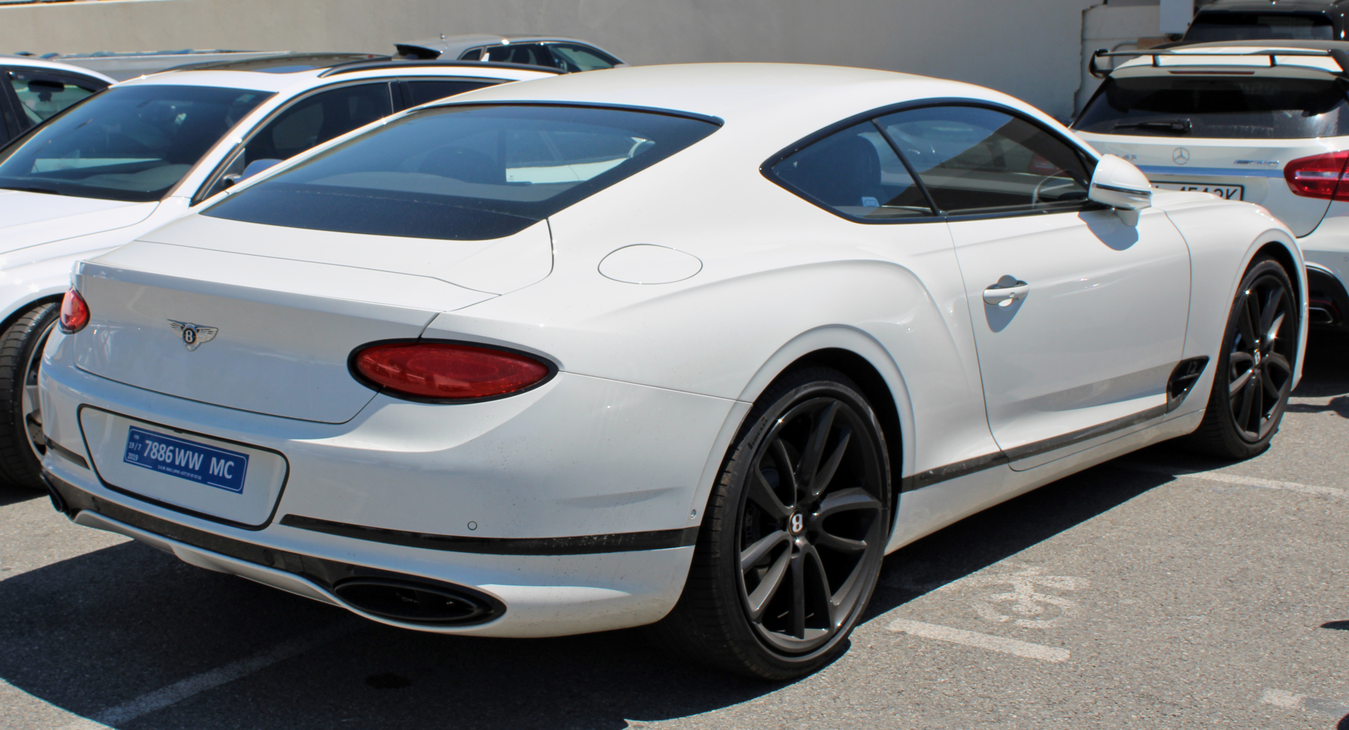 Bentley Continental GT in Monaco